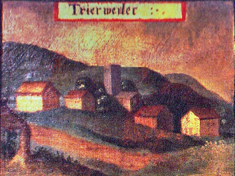 Trierweiler in 1589